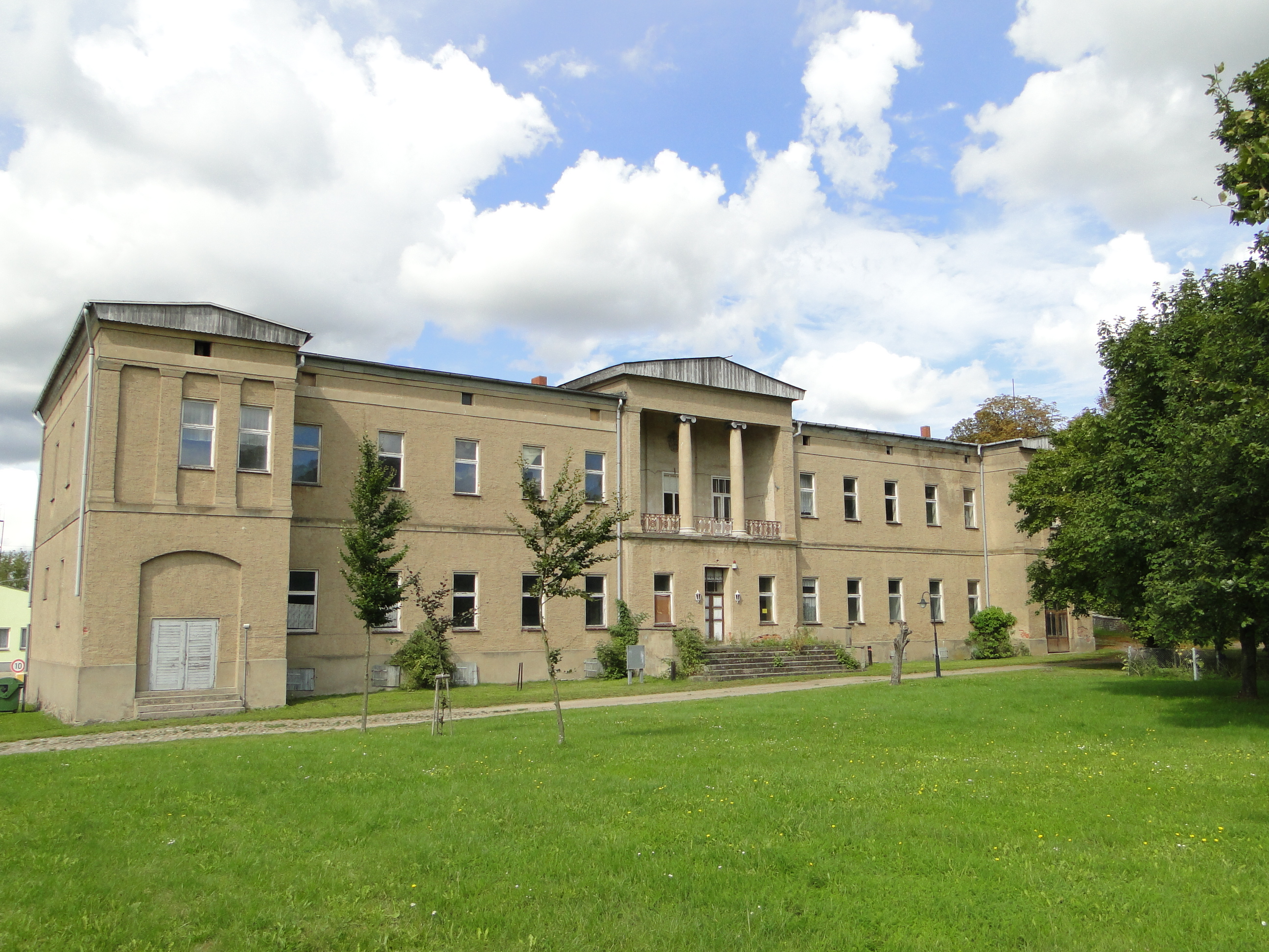 Manor house in Mollenstorf, district Müritz, Mecklenburg-Vorpommern, Germany